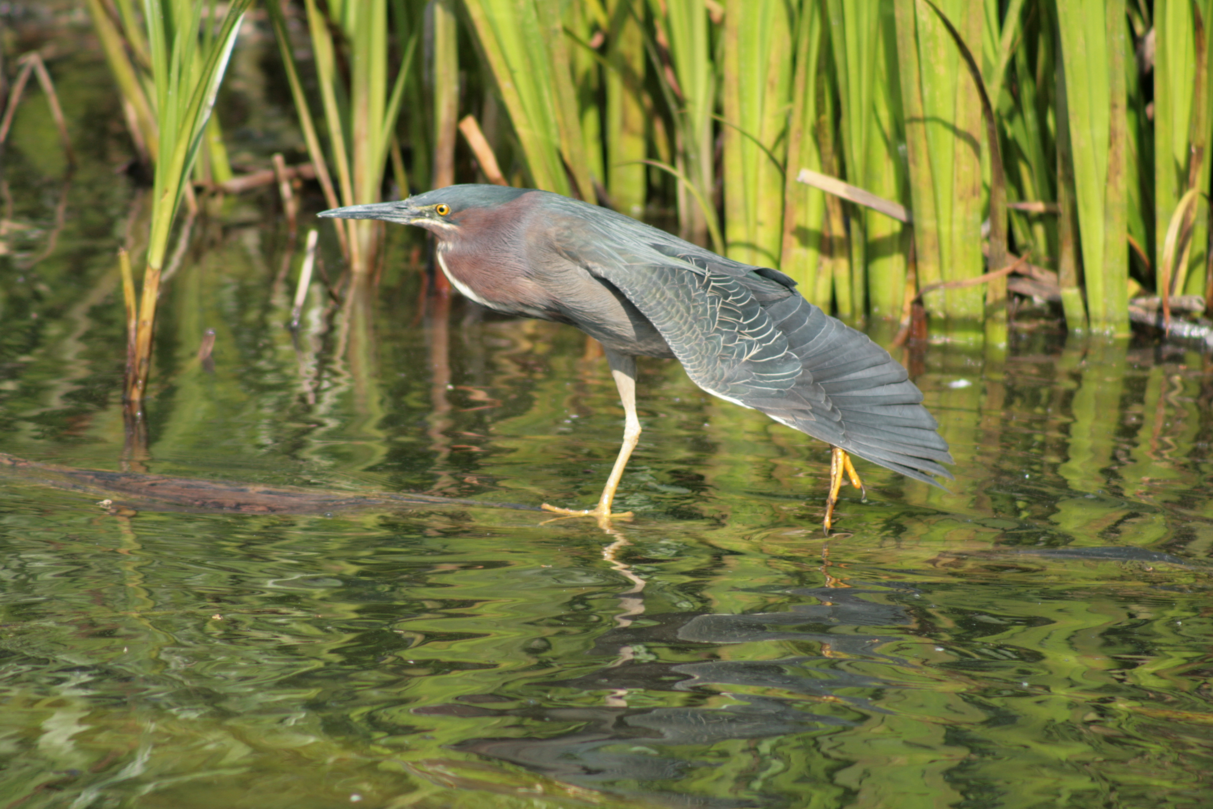 Green Heron North Pond Lincoln Park Chicago